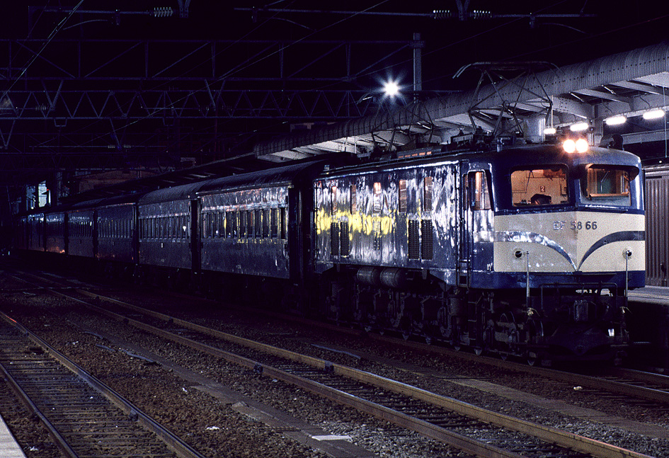 A Kisei Main Line train pulled by JNR EF58-66 electric locomotive, at Shingu Station